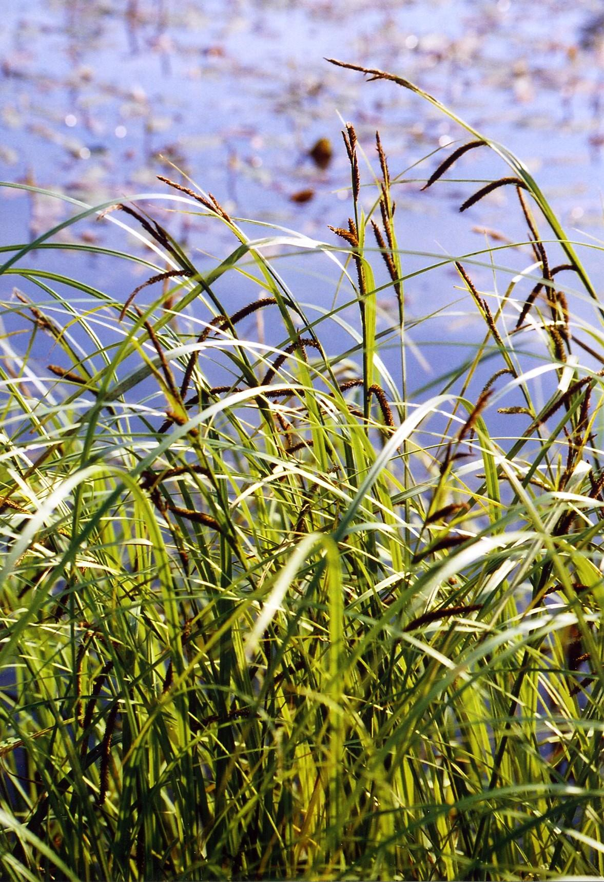 The sedge Carex acuta (formerly Carex gracilis) at the banks of a pond.